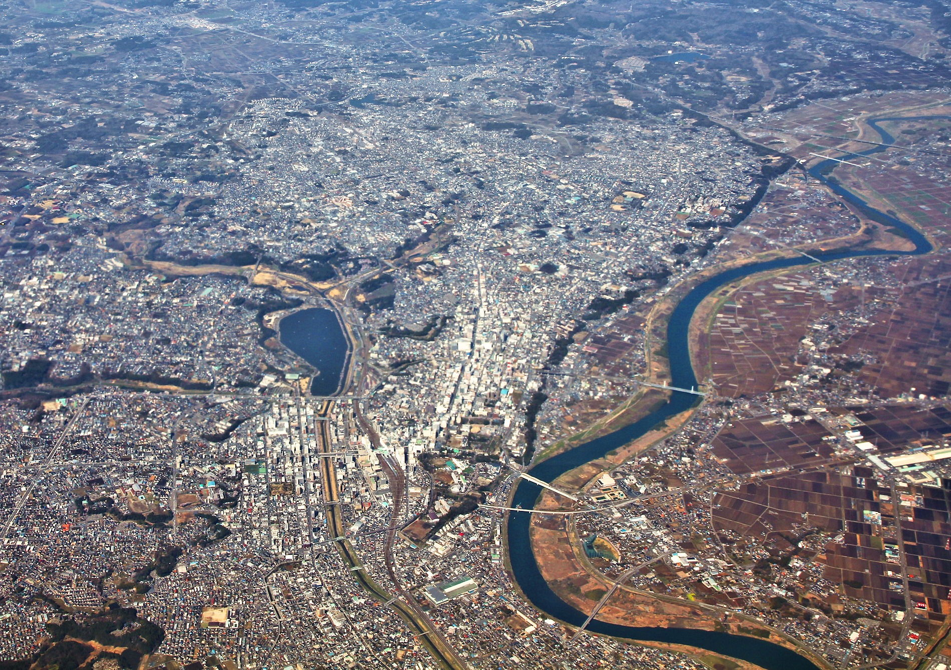 Aerial view of city of Mito, Lake Senba and Naka River, Ibaraki Prefecture, Japan.